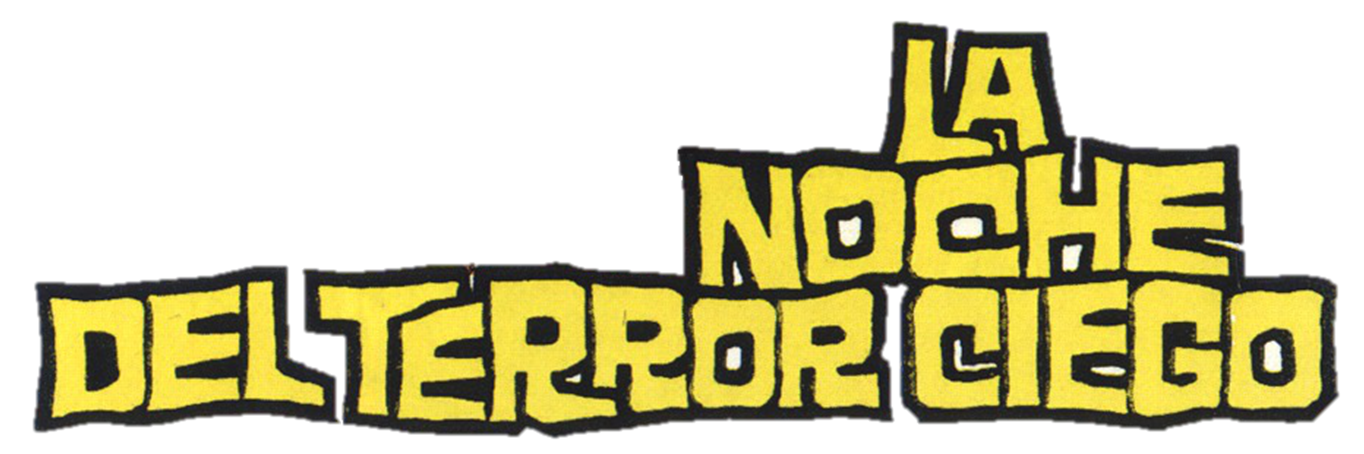 Official logo of the movie Tombs of the Blind Dead in Spanish.